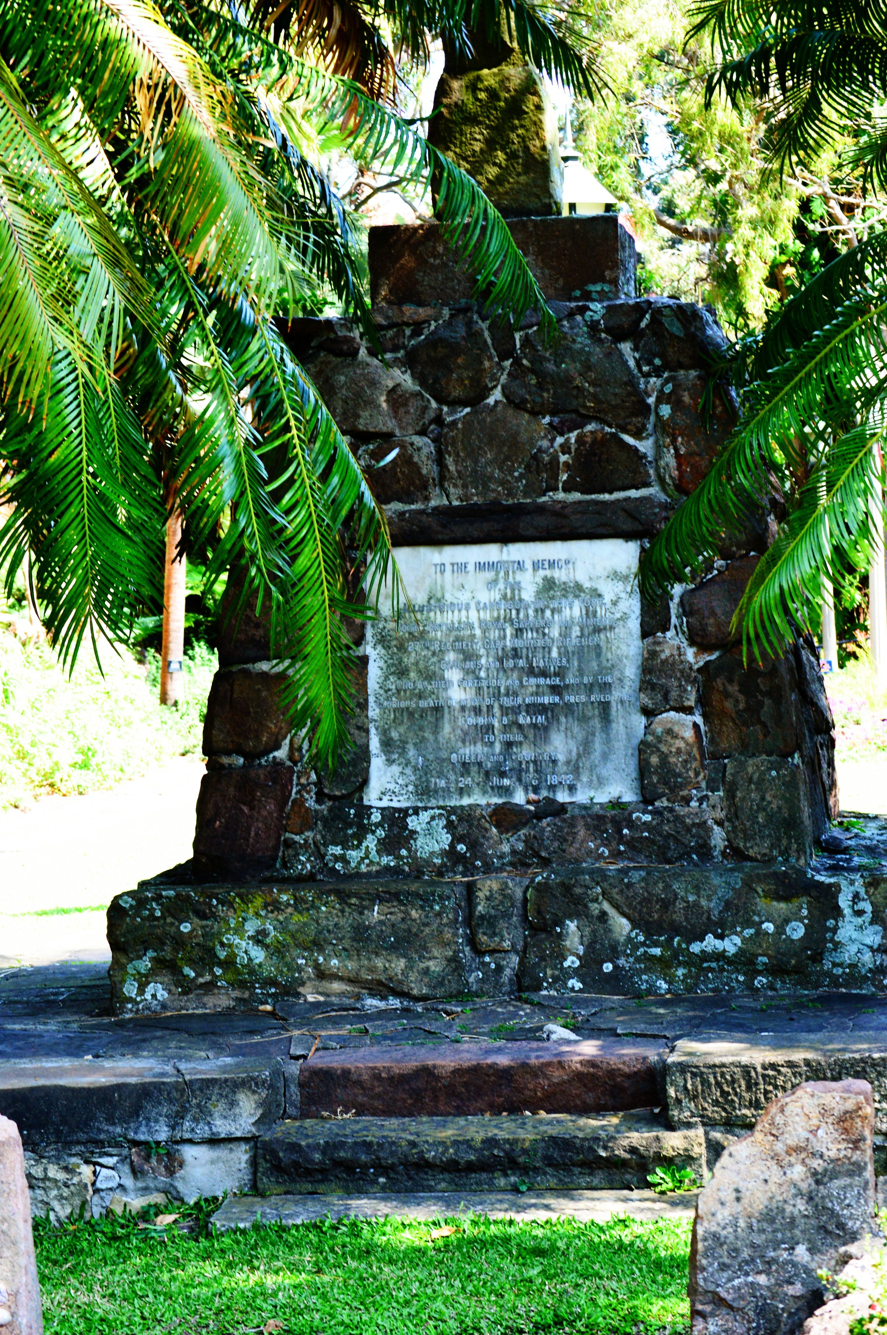 Memorial to the defenders of the British camp (now known as the Old Fort) at Port Natal in 1842. TO THE IMMORTAL MEMORY of the Illustrious Garrison of the Fort Royal Artillery, Royal Sappers and Miners, 27th Regiment Cape Mounted Riflemen, Civilians and Loyal Natives, who by their Fortitude and Courage, and by the Glorious Death of many of their number, preserved this Colony of Natal to their Queen and Country May 24 – June ?? 1842